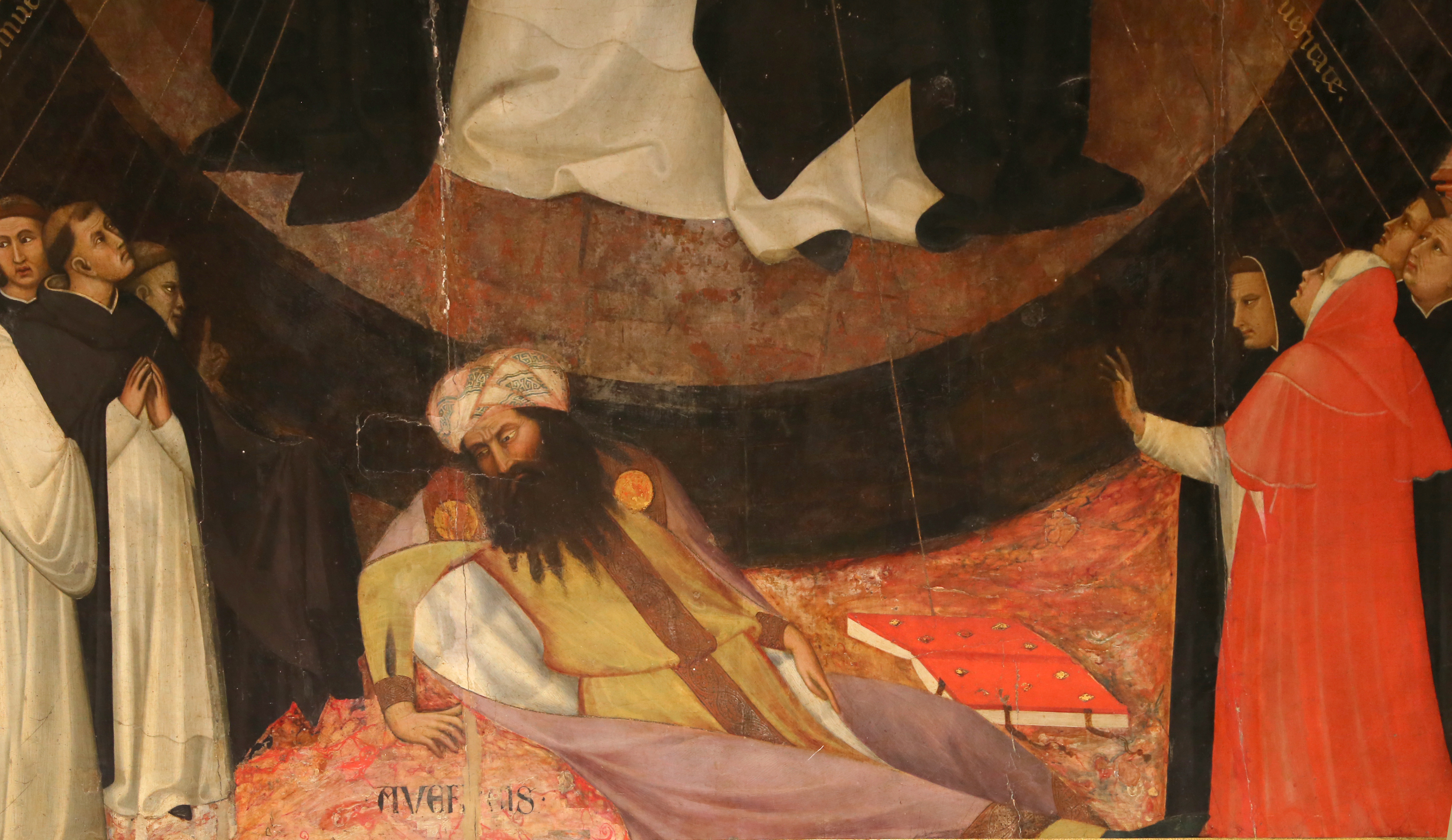 Apotheosis of Saint Thomas Aquinas by Lippo Memmi and Francesco Traini